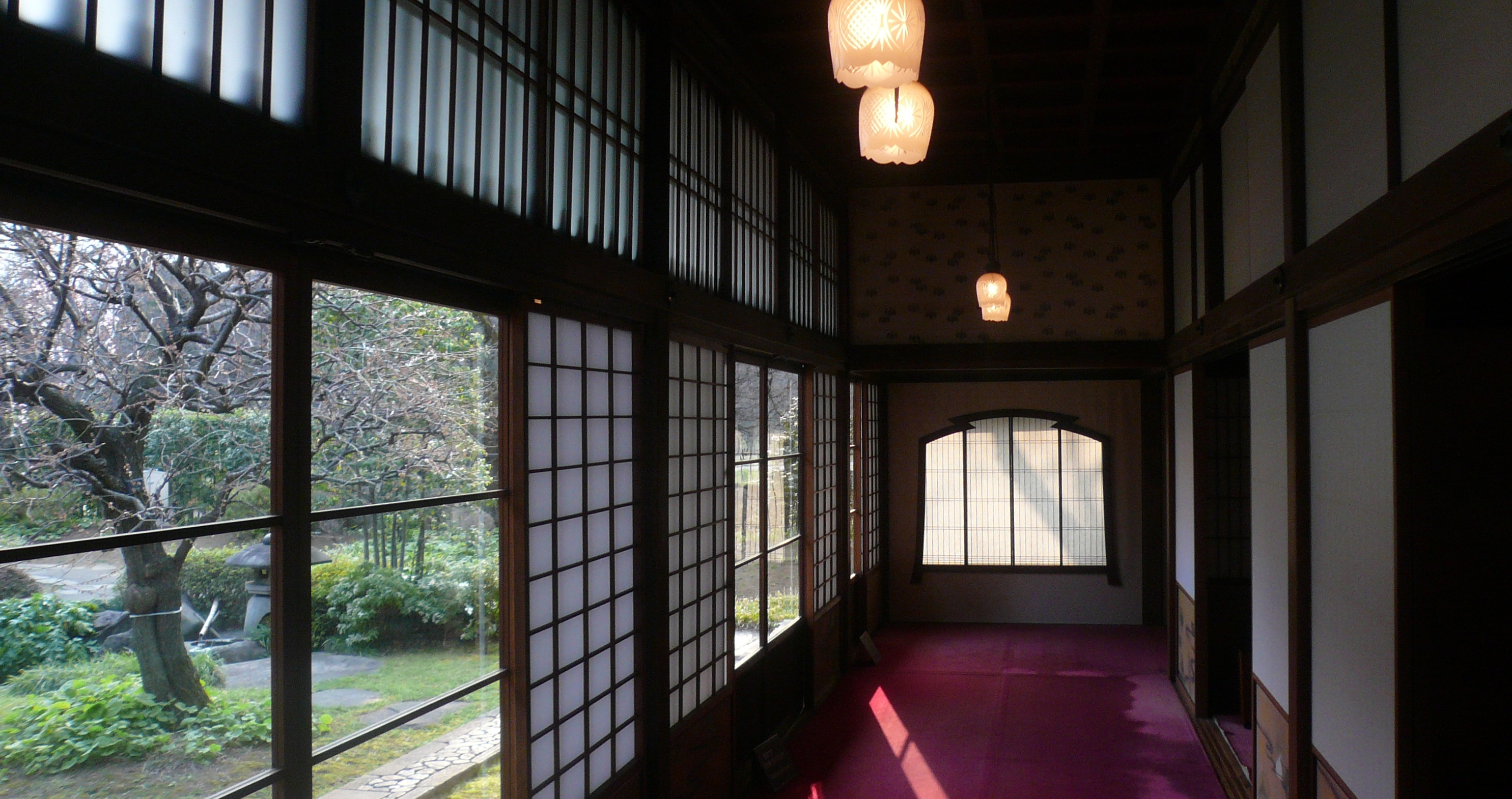 A view from inside one of the many buildings at the Edo-Tokyo Open Air Architectural Museum (江戸東京たてもの園). A garden can be seen outside the window.